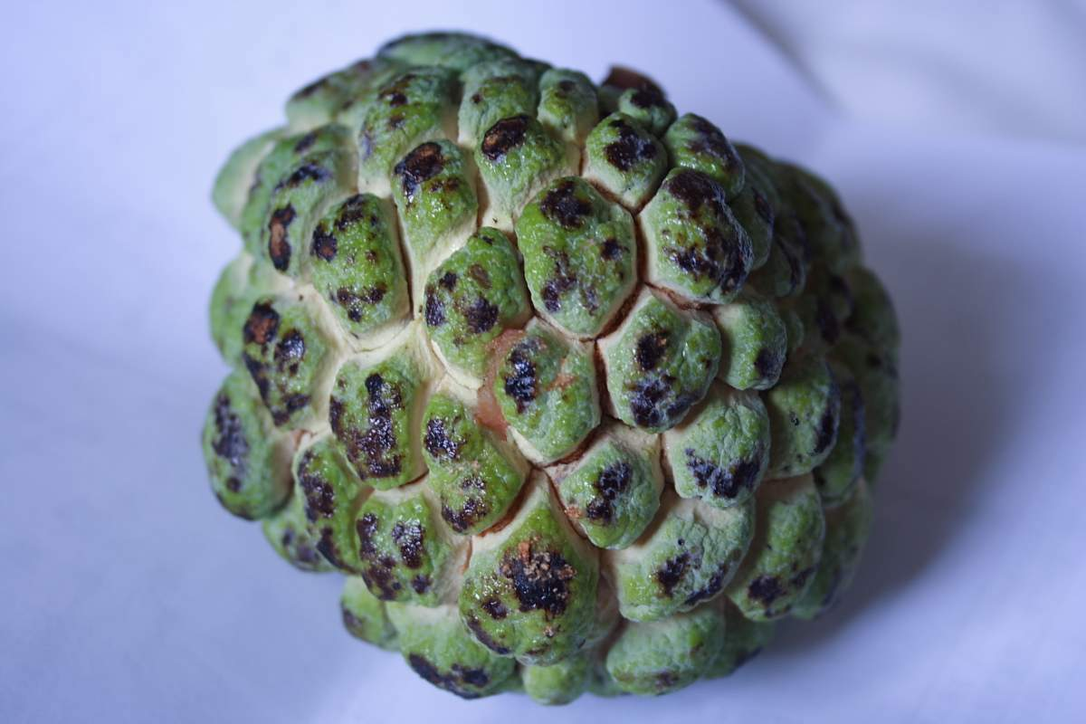 Sugar-apple